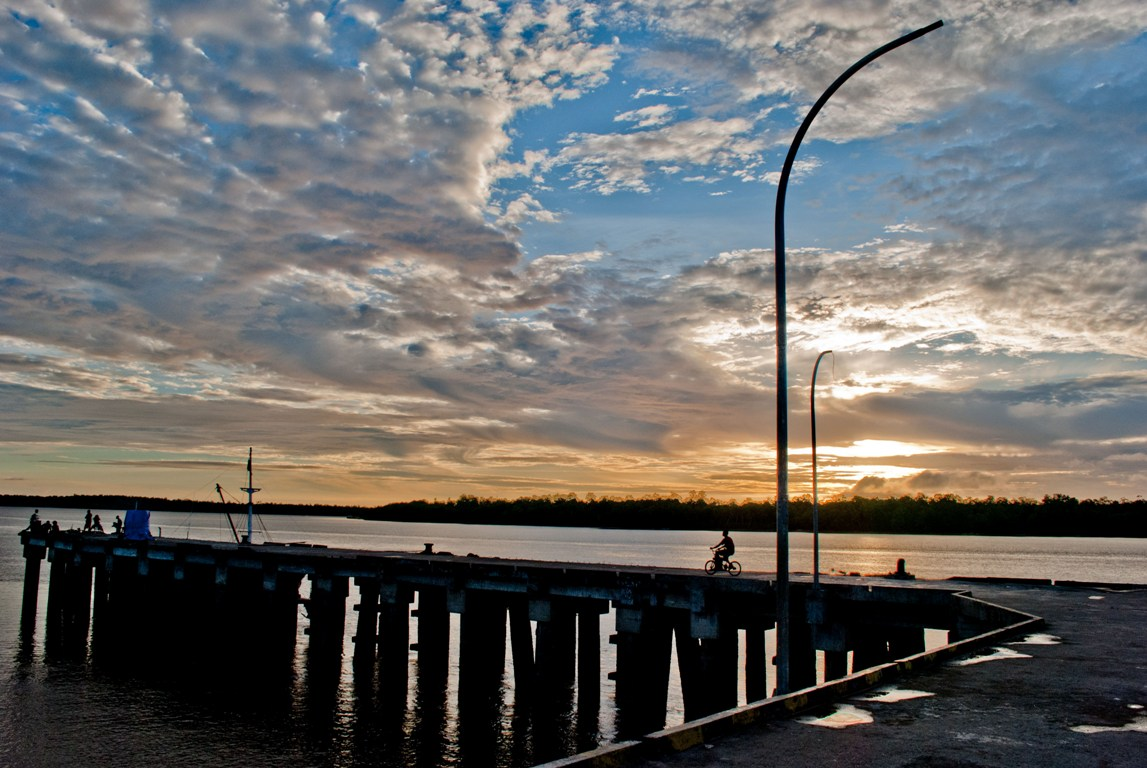 Port of Agats located in Agats town